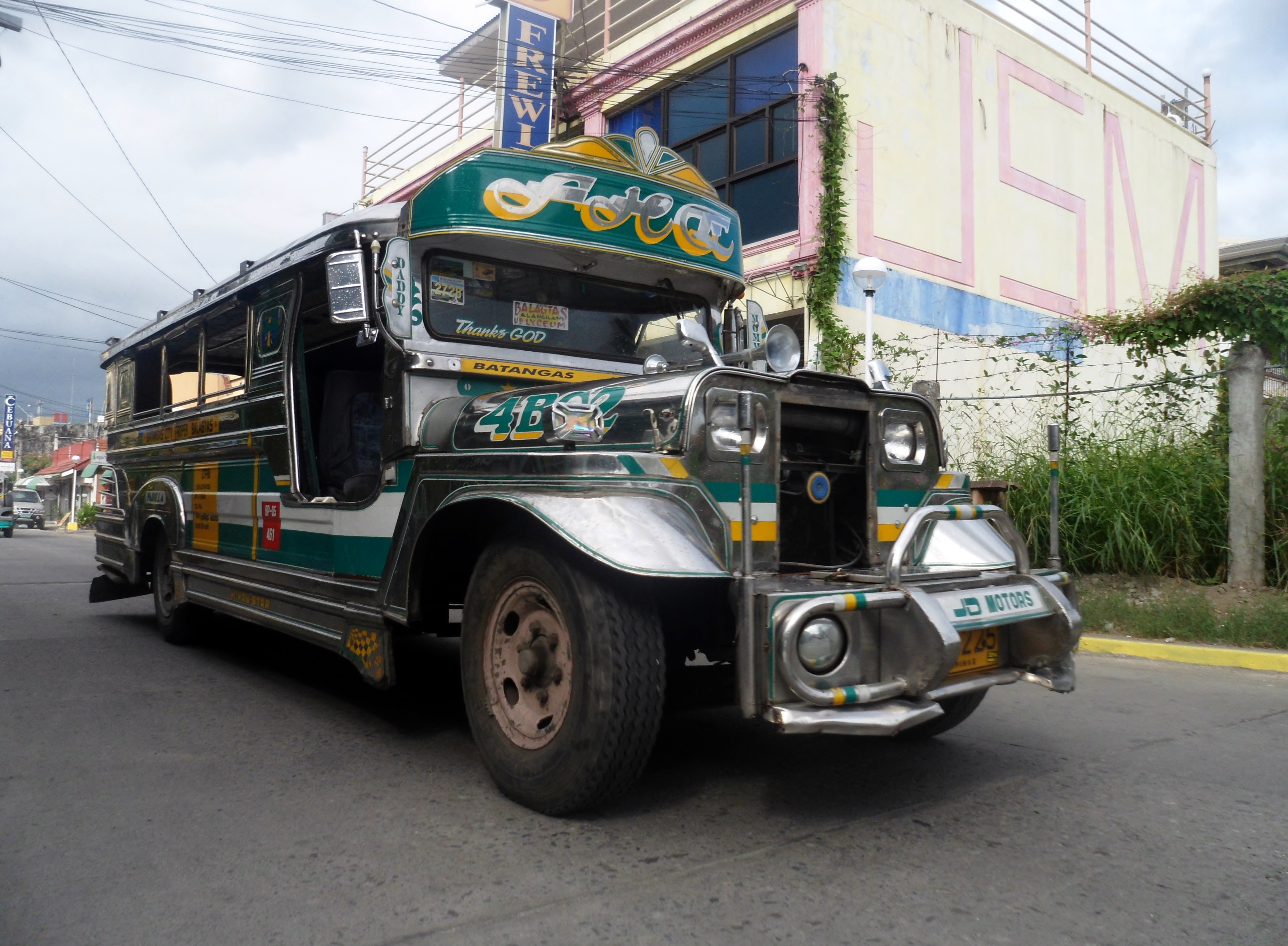 Jeepney running the Batangas City-Balagtas route (for Balagtas via Universtiy of Batangas, Lyceum Philippines University-Batangas and Alangilan) at P. Zamora Street, Barangay 17 Poblacion, Batangas City.Tagalog: Dyip ng rutang Batangas City-Balagtas (patungong Balagtas sa pamamagitan ng University of Batangas, Lyceum Philippines University-Batangas at Alangilan) sa P. Zamora, Barangay 17 Poblacion, Lungsod ng Batangas.